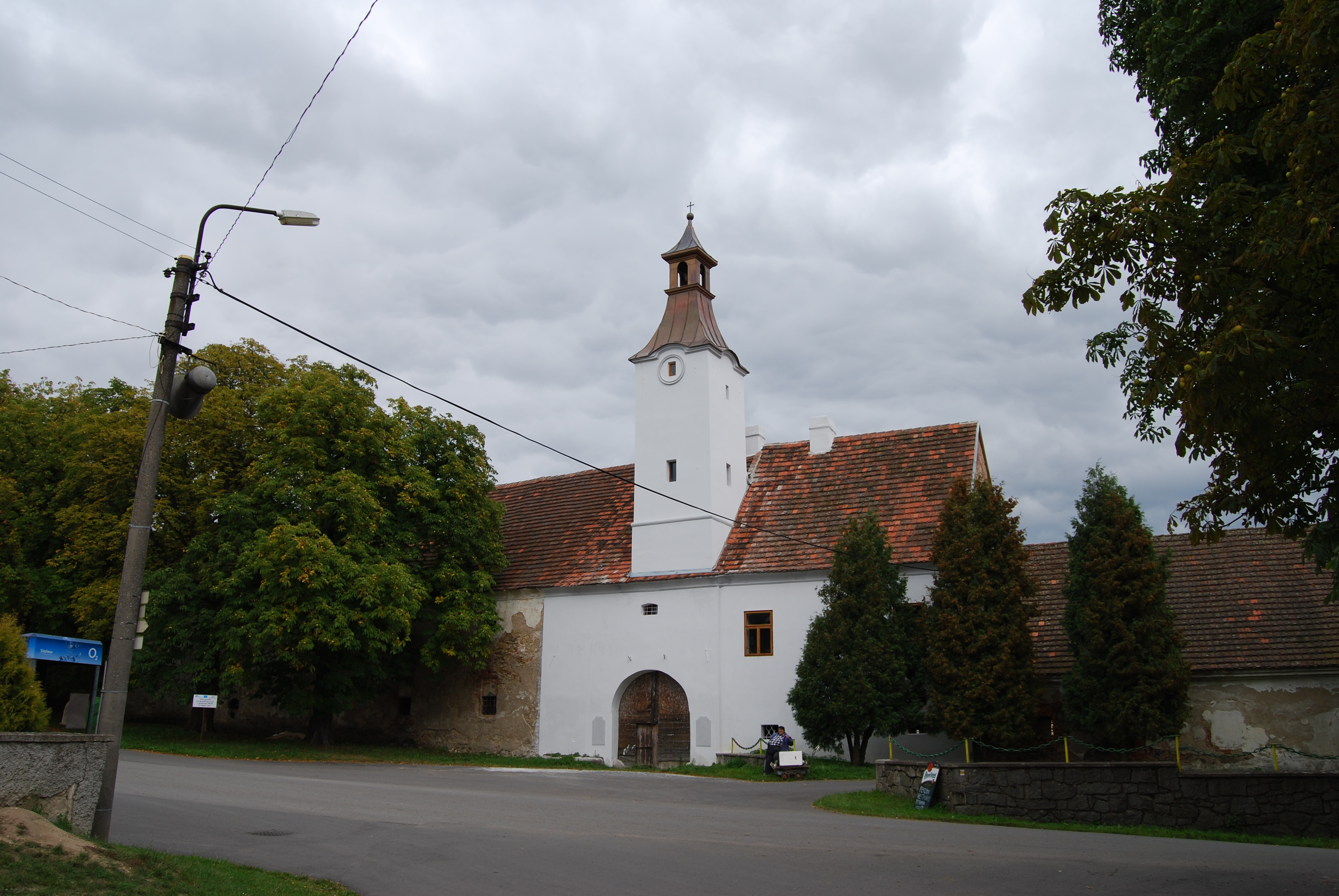 Cerhonice village in Pisek District, Czech Republic.